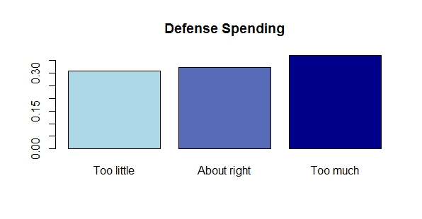 Example bar plot of opinion on defense spending (fabricated data) with ordinal data. Data was made up to show an example of visualization ordinal data in R. Graph was made by Mw011235